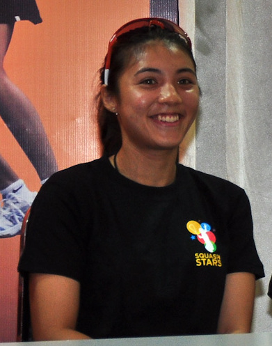 Sharon Wee, Delia Arnold and Low Wee Wern during the Squash Stars Meet the Stars session in 2010.